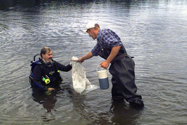 Mr. Laurence Johns of the Monroe County diving team, left, and Mr. Matt Komiskey, from the Oak Ridge Institute for Science and Education, collect samples of the Eurasian Watermilfoil (Myriophyllum Spicatum) plant which threatens fish in Sandy Lake. The original article this image appeared in is available here.